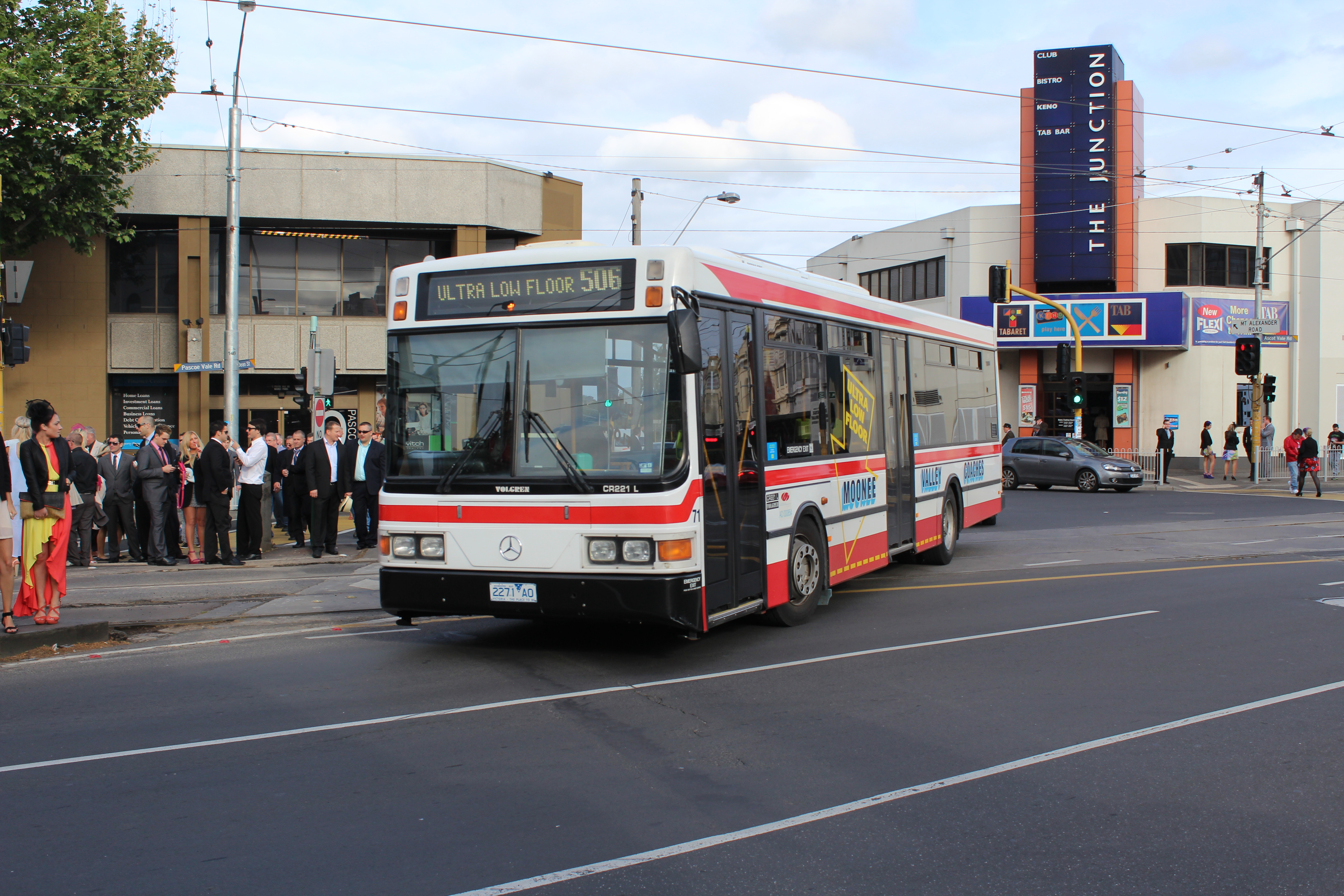 Moonee Valley Coaches bus at Moonee Ponds junction on route 506, 2012